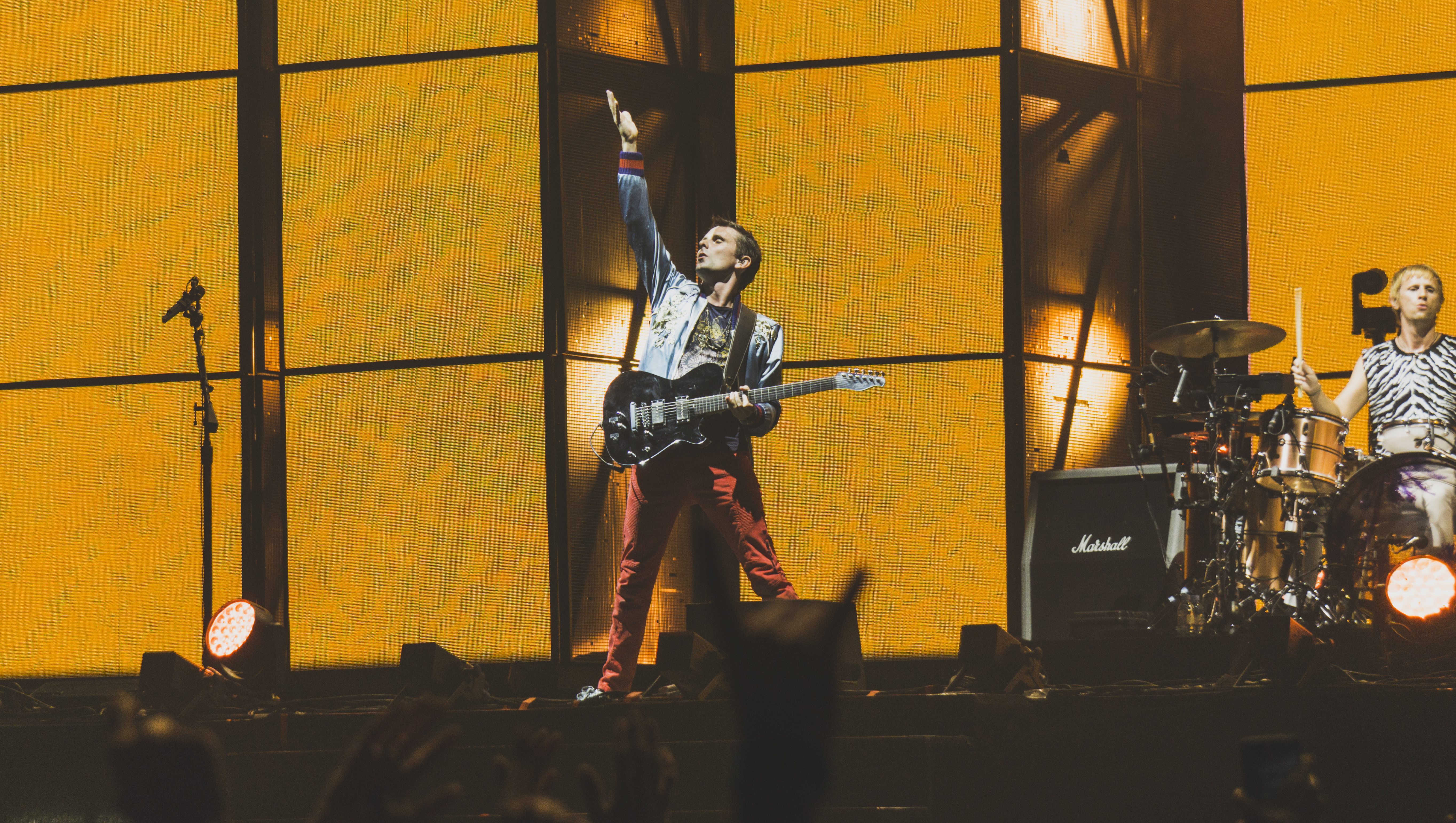 Performance of the English rock band Muse at Reading Festival 2017.